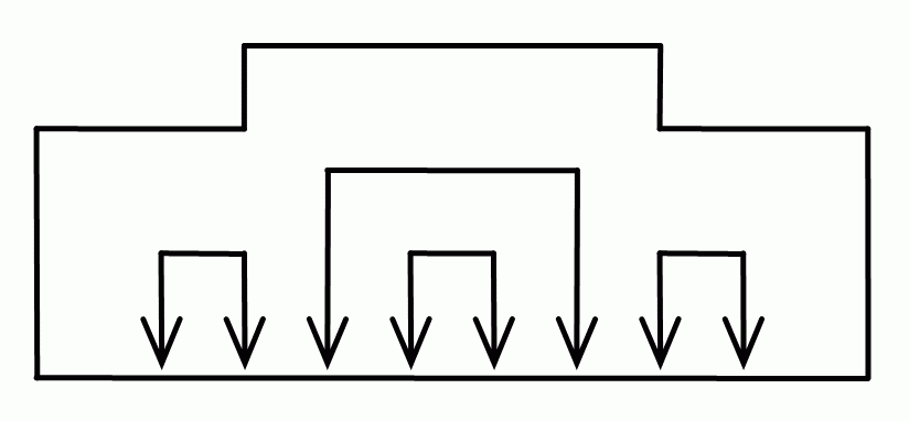 8P8C ethernet connector, help how to connect twisted pairs correctly and independetly on colors